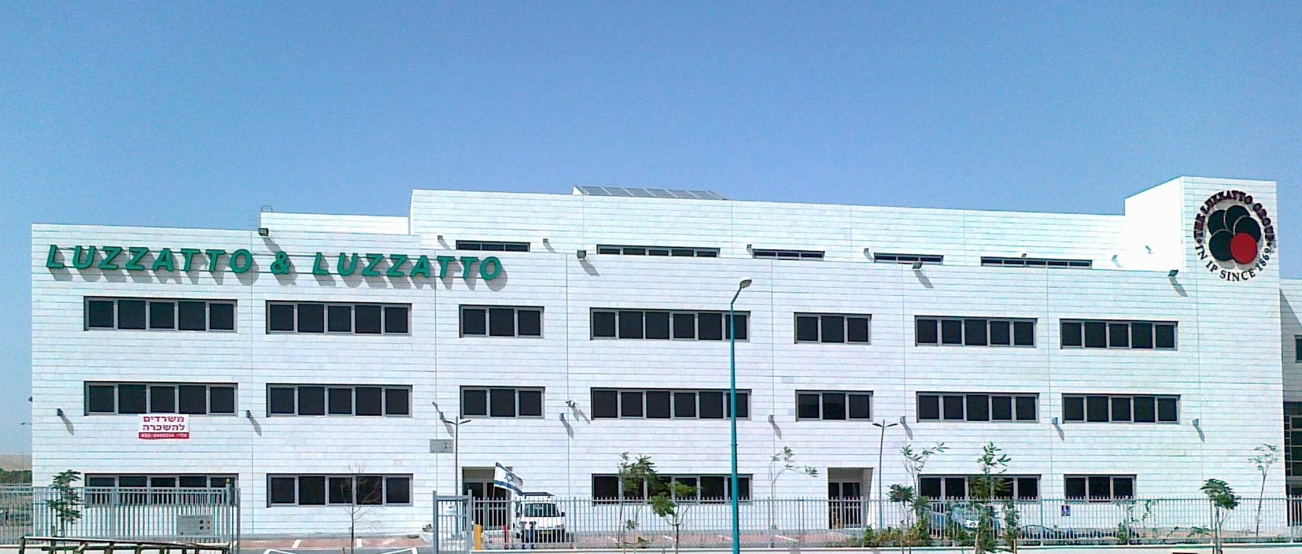 The Luzzatto Group building, 2013